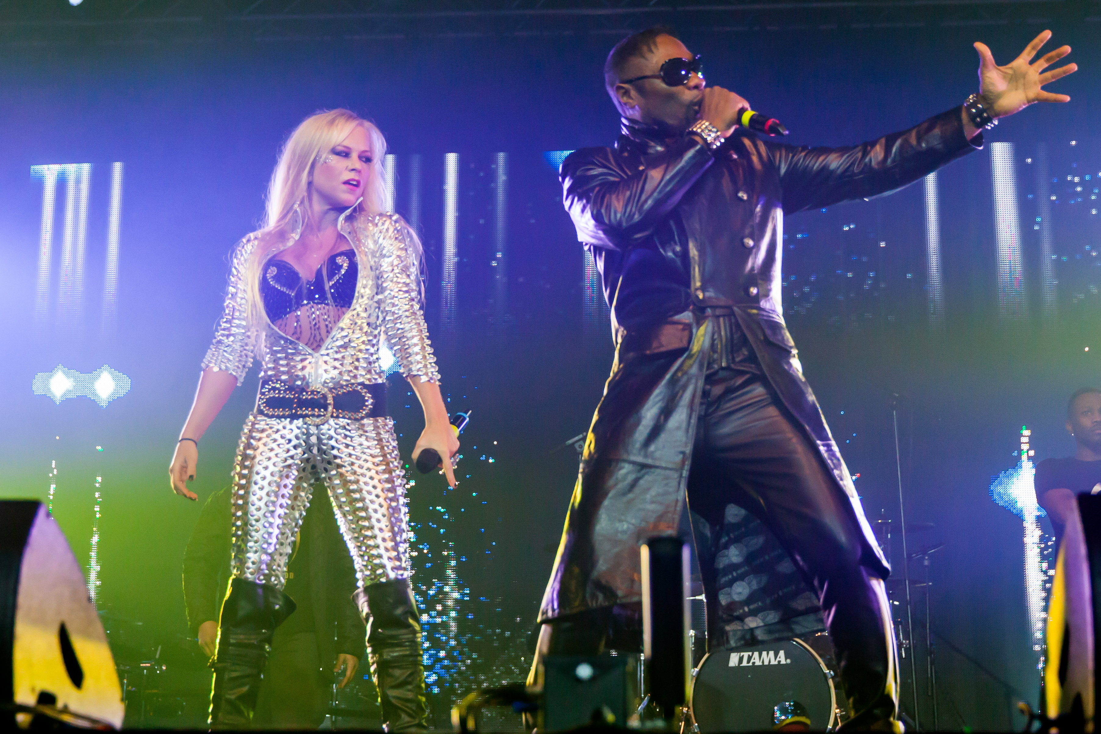 sunshine live "Die 90er - Live On Stage" Maimarkthalle Mannheim DJ Falk, Magic Affair, Captain Hollywood Project, Haddaway, Masterboy, 2 Unlimited, Marusha, Charly Lownoise in this picture : captain hollywood with his wife&vocal Shirin von Gehlen